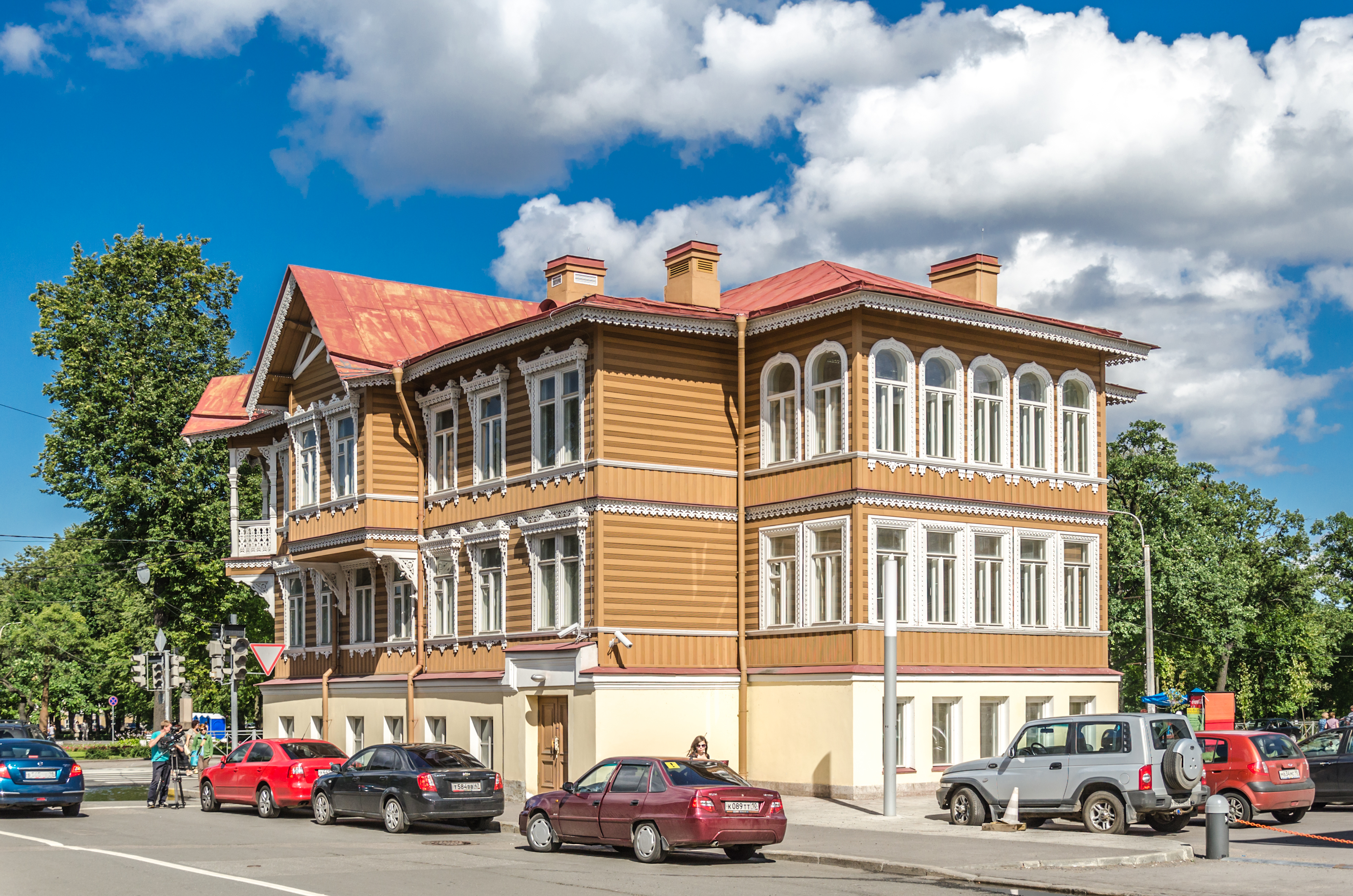 Pravlenskaya street 16 Peterhof